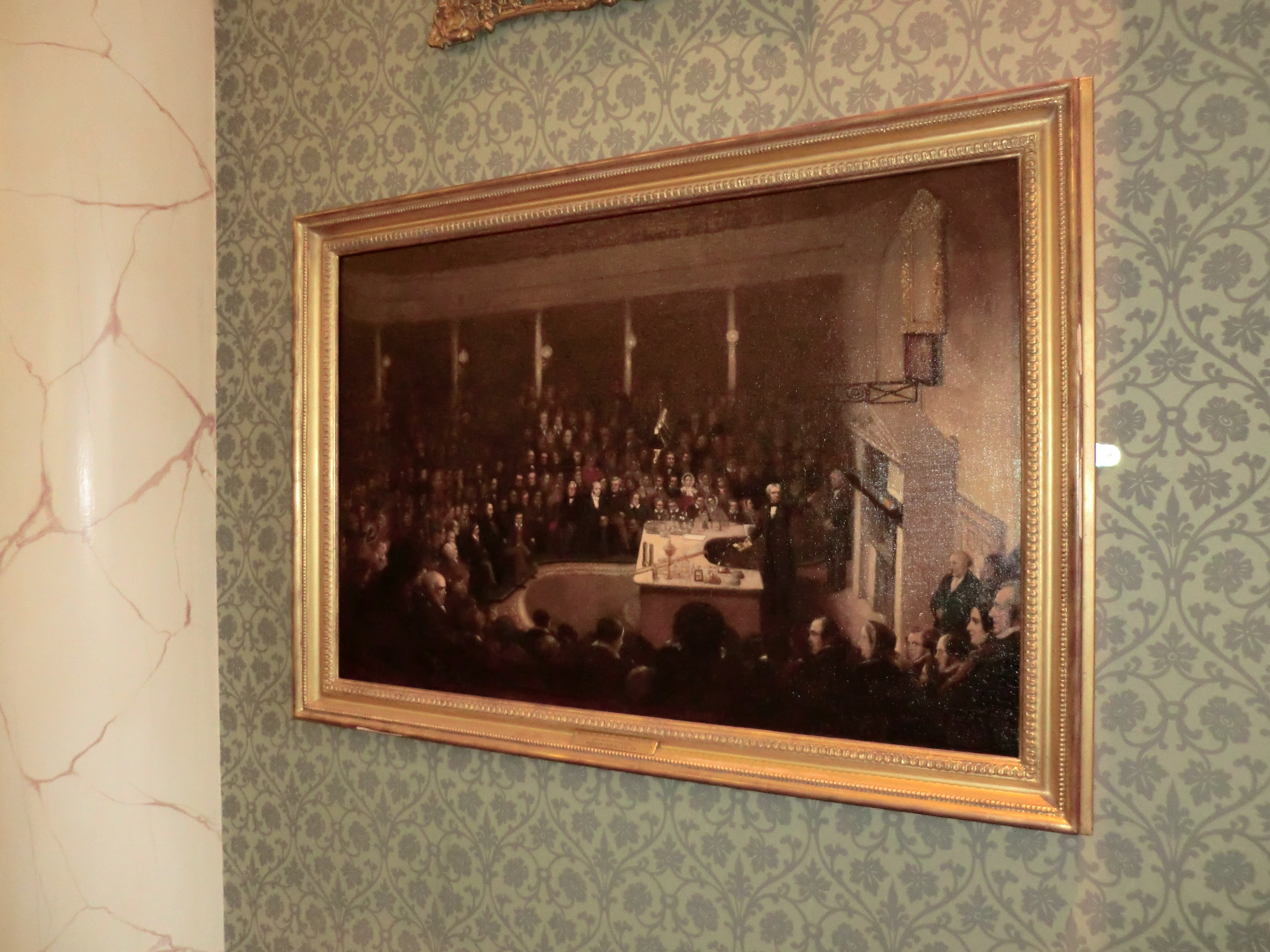 Michael Faraday's Royal Institution Christmas Lecture before the Prince Consort, attribuited to Alexander Blaikley